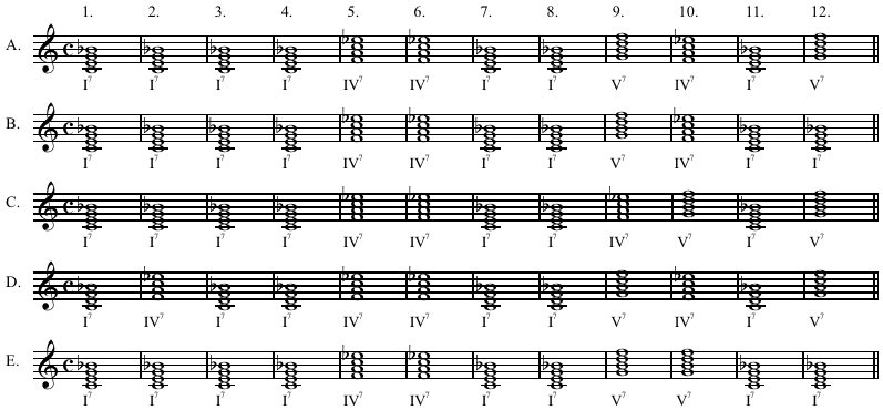 The most common or standard 12-bar blues progressions variations, in C.(Benward & Saker 2003, 186). Created by Hyacinth (talk) 05:08, 14 July 2011 (UTC) using Sibelius 5.